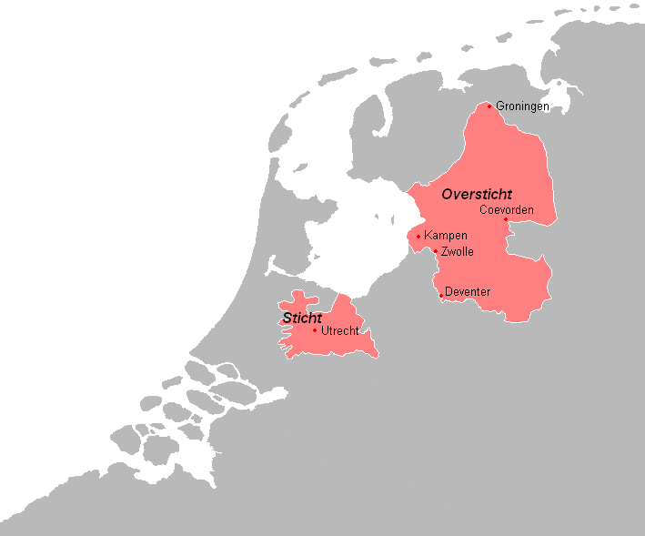 Map of the Sticht Utrecht and the Oversticht in the Netherlands.